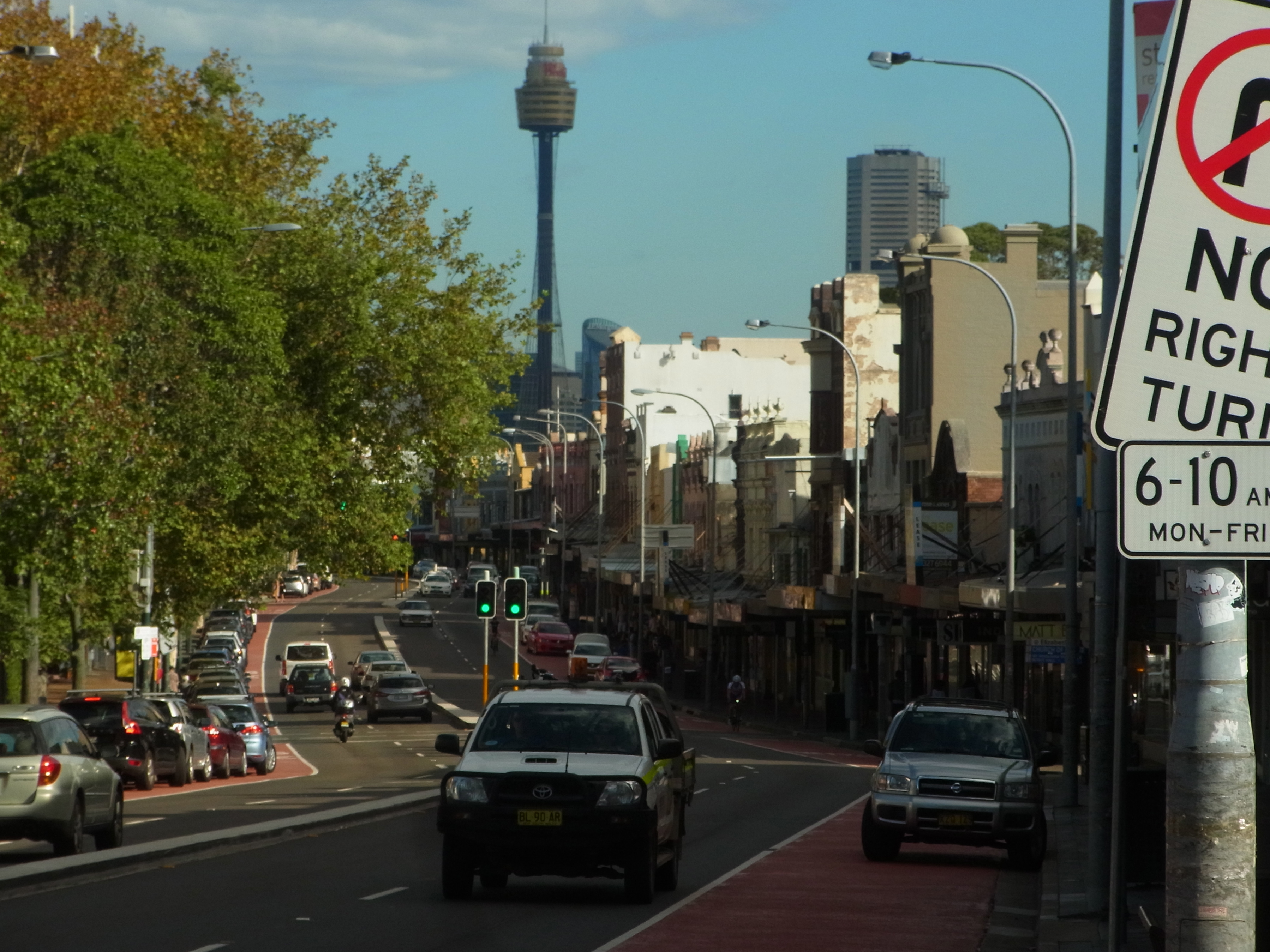 looking west to Sydney Tower